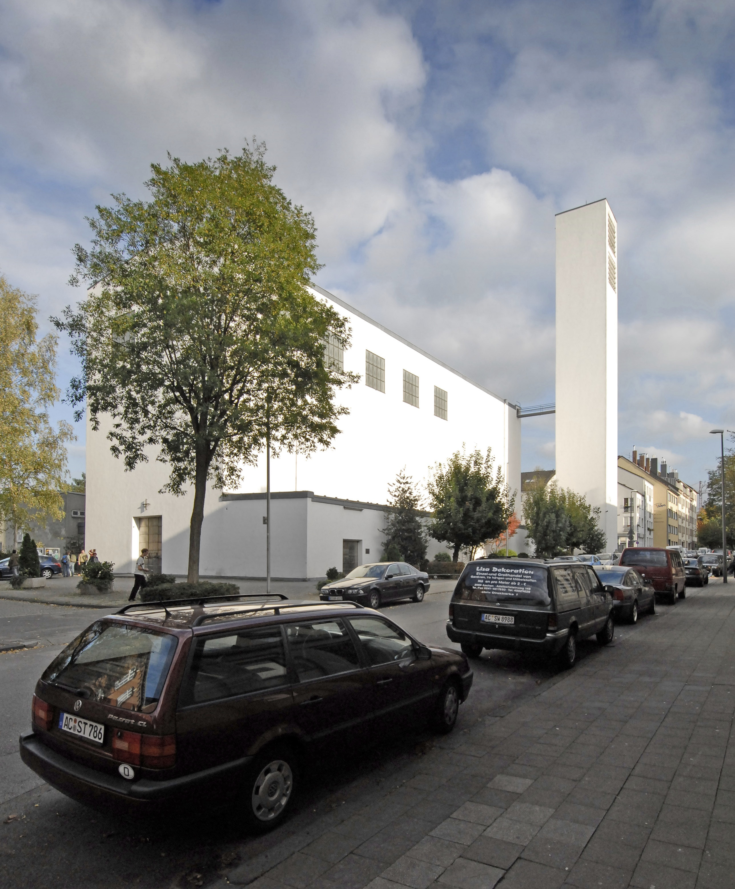 Church Corpus Christi in Aachen by Architect Rudolf Schwarz